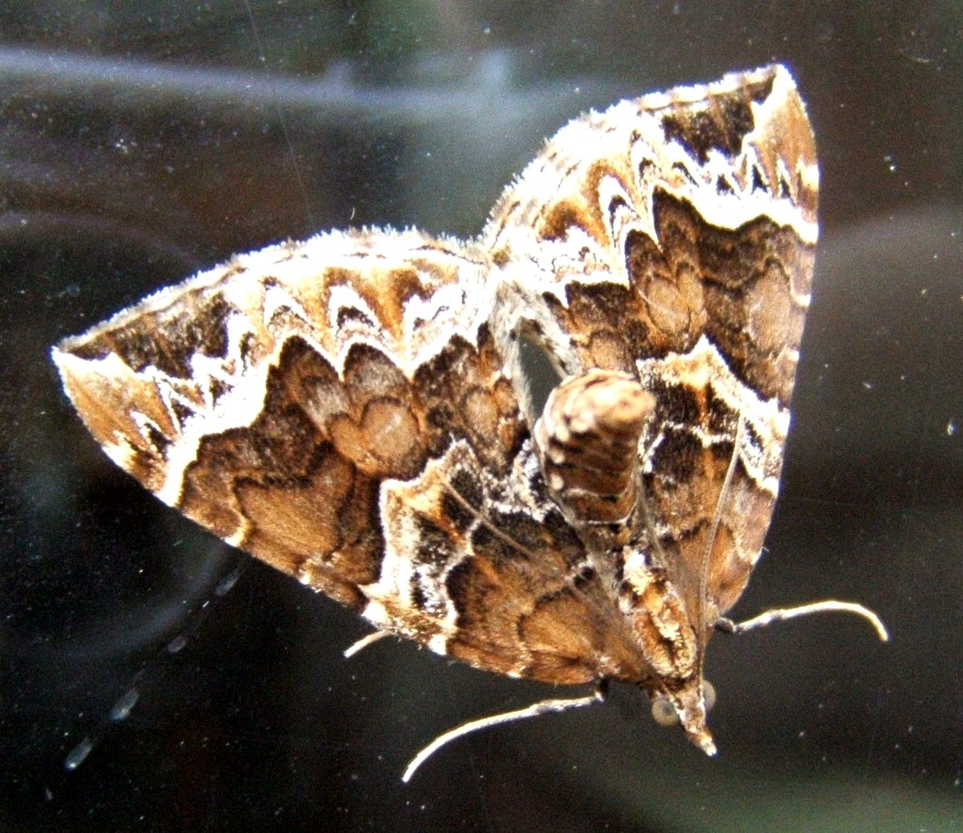 Eulithis prunata moth, wingspan 27mm.